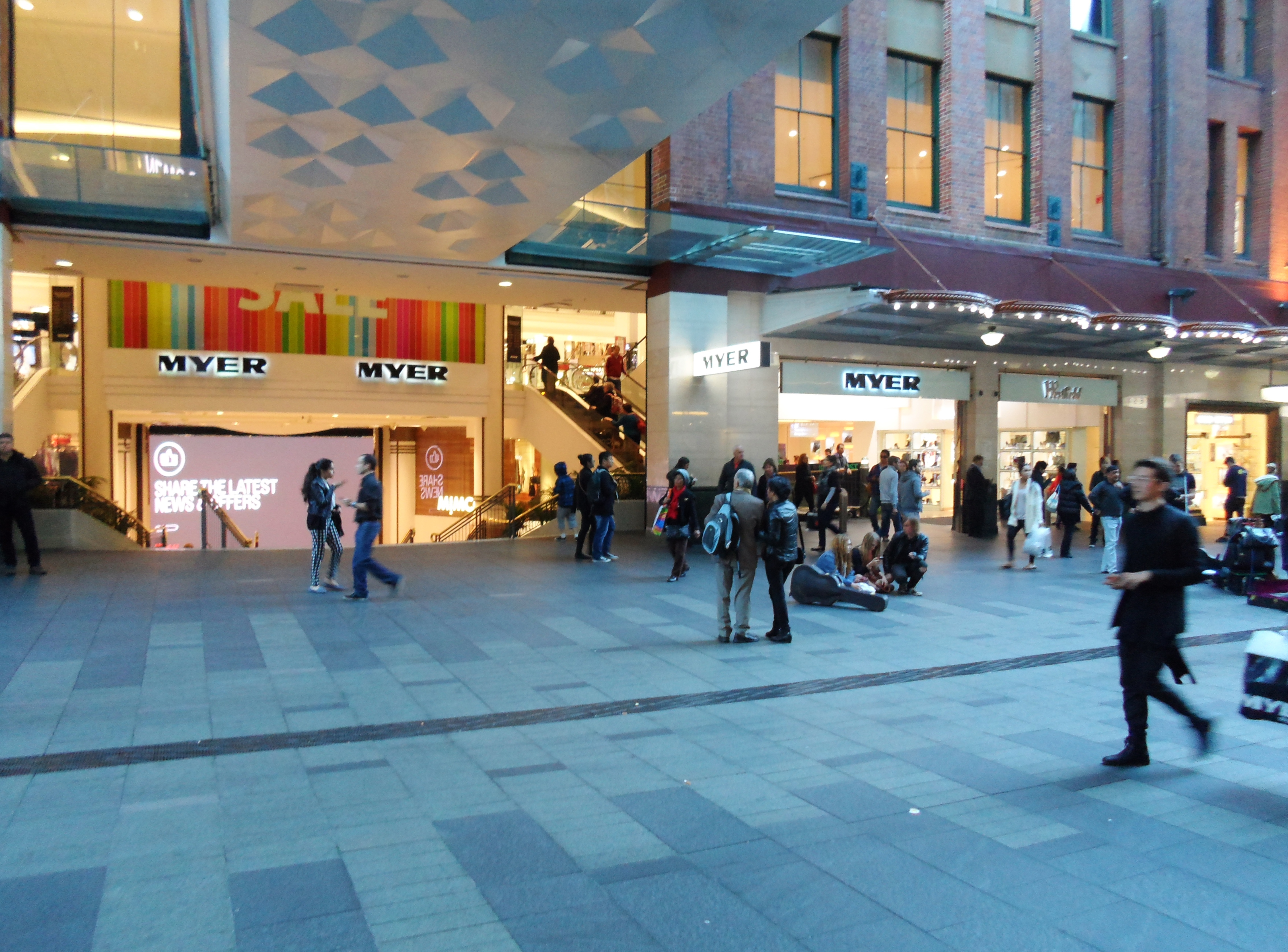 The Pitt Street frontage of the MYER Sydney City branch of Australian department store MYER in 2013.